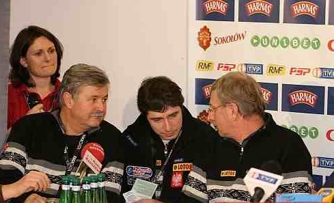 Apoloniusz Tajner, Łukasz Kruczek, Hannu Lepistoe During press conference before FIS Ski Jumping World Cup in Zakopane, 2007